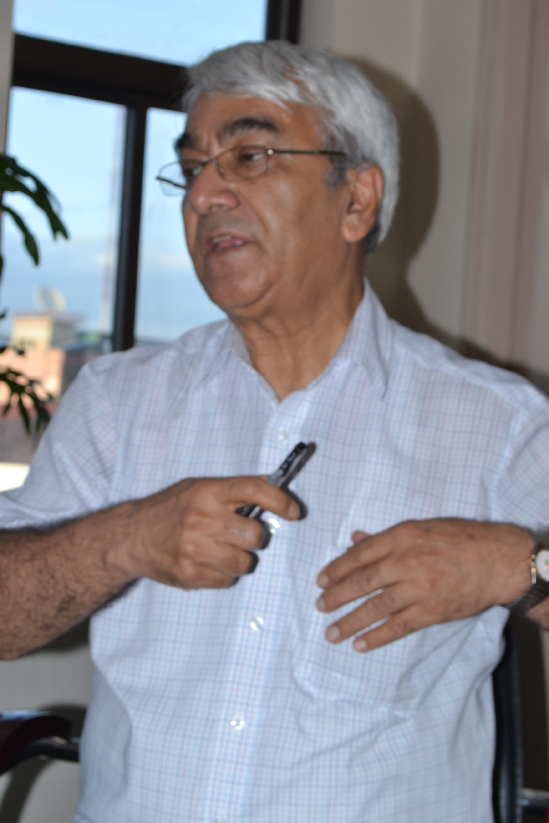 Da.Bhola Rijal is a celebrities of Nepal